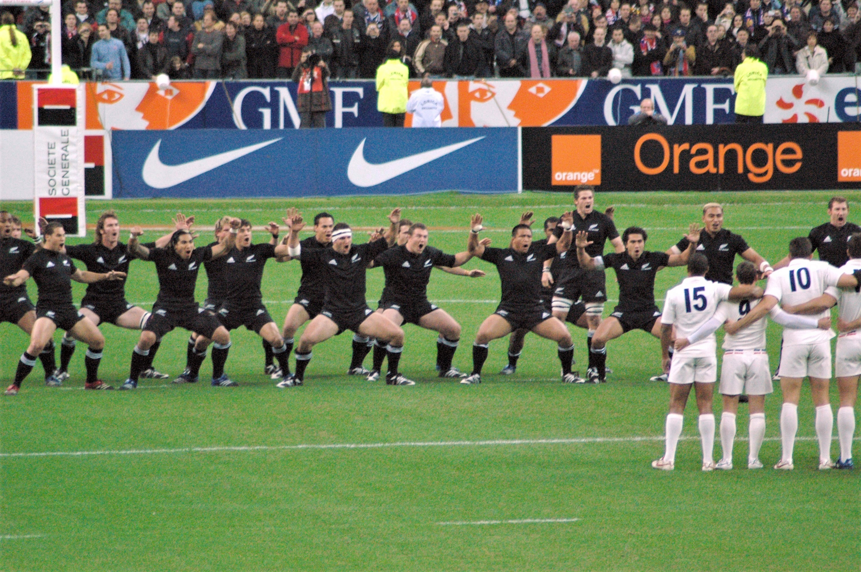 Ka Mate haka of the All Blacks led by Richie McCaw before a match against France in 2006.